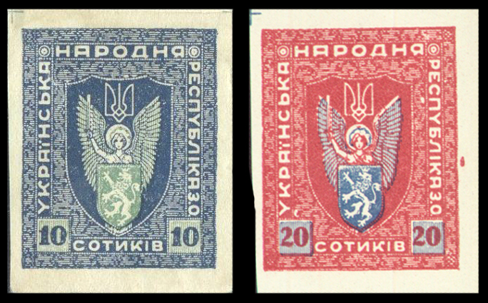 Stamps of Western area UPR, 1st series (not released)